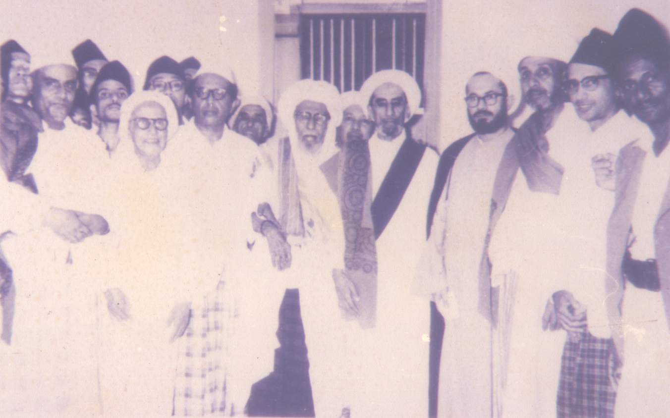 Photo of Baalawi people (Habib Ali Al-Habsyi, Habib Ali bin Husein Al-Attas, Habib Salim bin Jindan and other Ba'alawi)